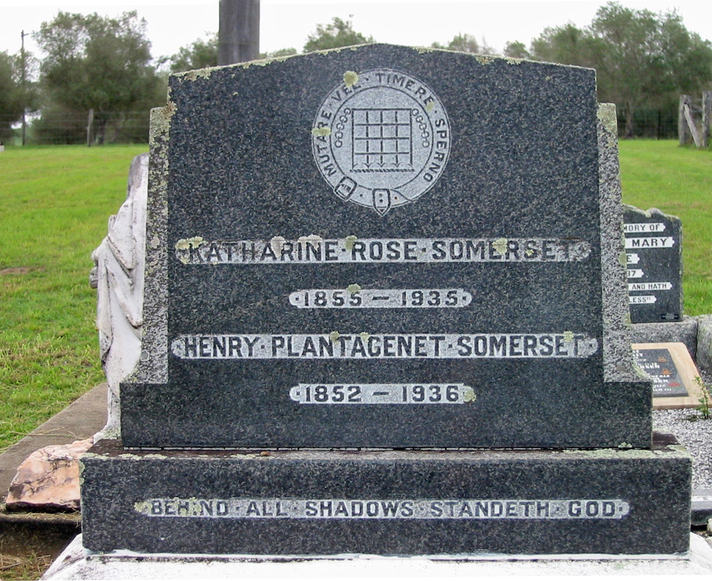 The headstone for Henry Plantagenet Somerset and his wife Katharine Rose Somerset in the cemetery beside the Caboonbah Undenominational Church, Mt. Beppo.